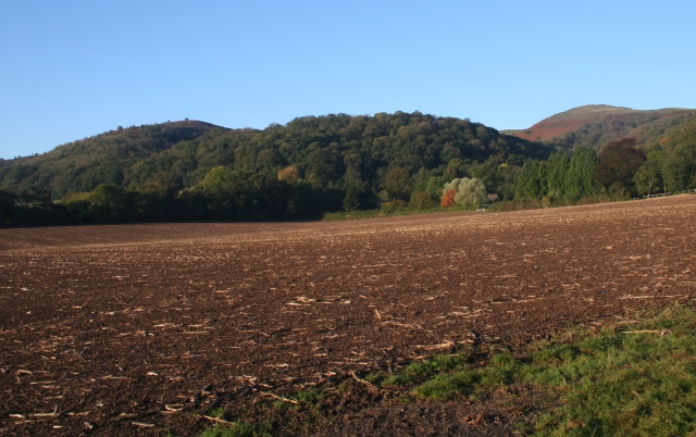 Tinkers Hill Flanked by Broad down on the left and Herefordshire Beacon on the right.